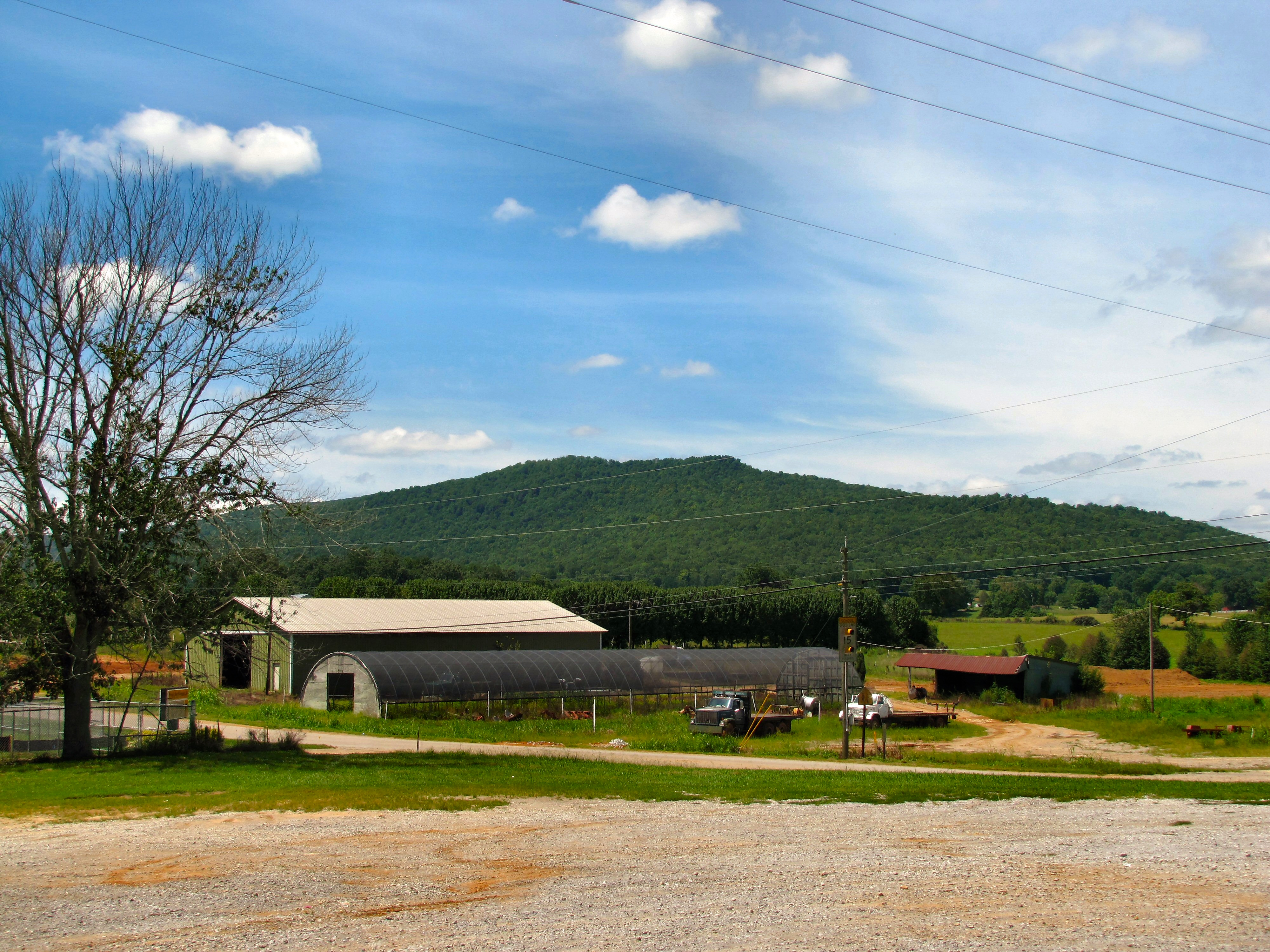 Farm near the intersection of Dry Creek Road and Tennessee State Route 56 in the Irving College community of Warren County, Tennessee, United States. Ben Lomond Mountain rises in the background.